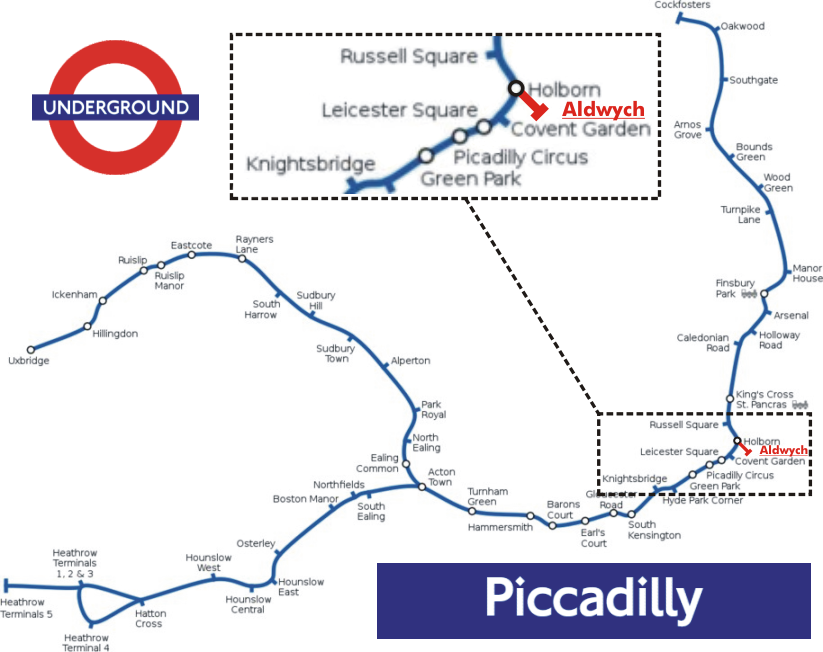 Position of the closed station Aldwych (Piccadilly Line). Parts adopted from: Piccadilly Line.png Piccadilly line flag box.png Underground.svg